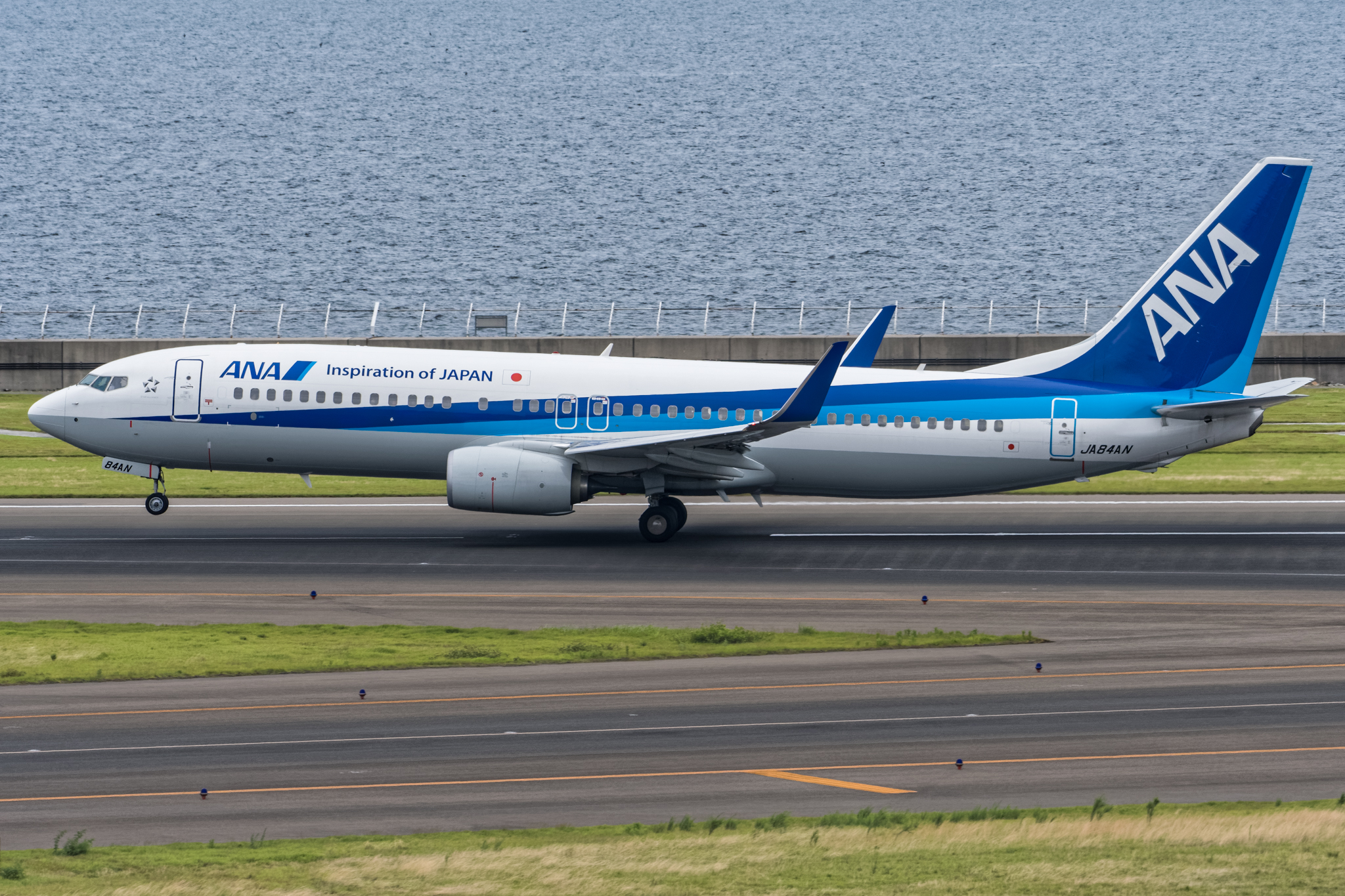 Chubu Centrair International Airport, Nagoya